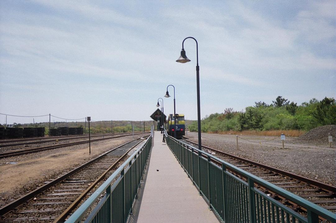 Center platform for two of the tracks at the current Montauk (LIRR station) in Montauk, New York.